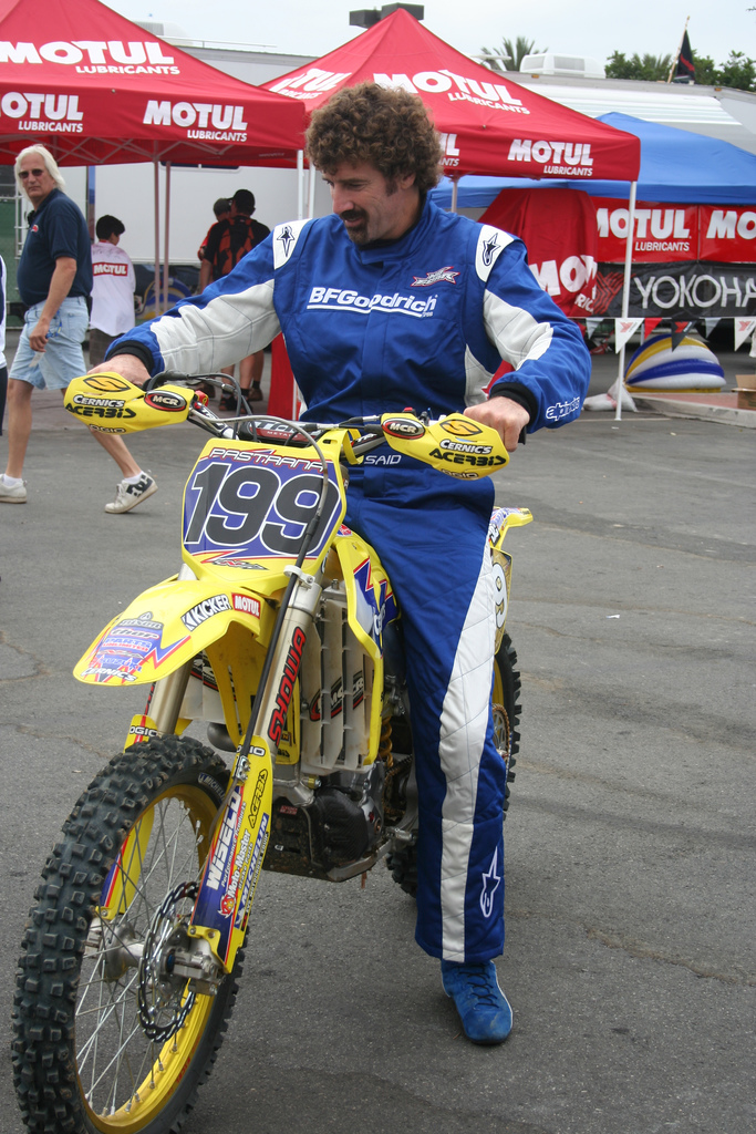 Boris Said tests Travis Pastrana's motorcross bike at X-Games 13.